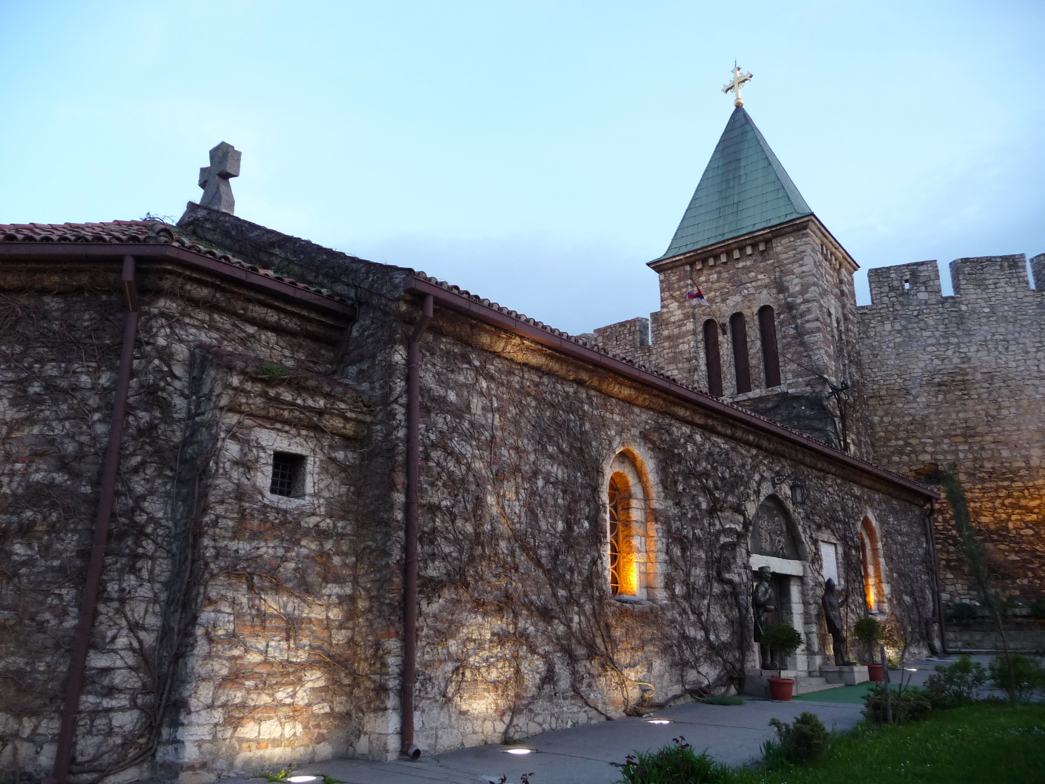 Ružica church, Kalemegdan Fortress, Belgrade, Serbia